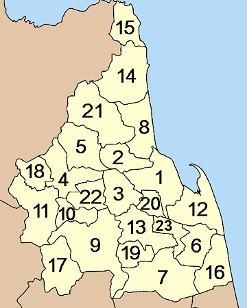 Map of the province Nakhon Si Thammarat with the districts (Amphoe) numbered. Mueang Nakhon Si Thammarat Phrom Khiri Lan Saka Chawang Phipun Chian Yai Cha-uat Tha Sala Thung Song Na Bon Thung Yai Pak Phanang Ron Phibun Sichon Khanom Hua Sai Bang Khan Tham Phannara Chulabhorn Phra Phrom Nopphitam (King Amphoe) Chang Klang (King Amphoe) Chaloem Phra Kiat